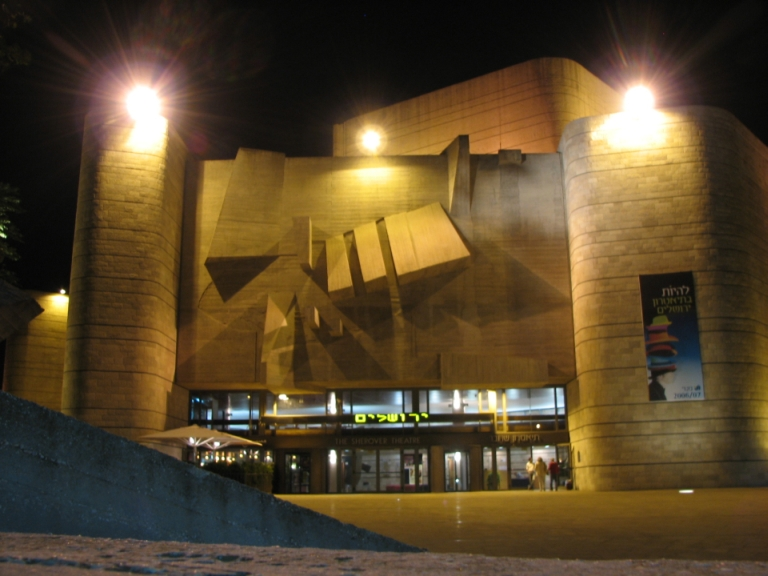 The Jerusalem Center for the Performing Arts at night (in heb: "Teatron Yeruslaim"). relief by Yehiel Shemi (1971).